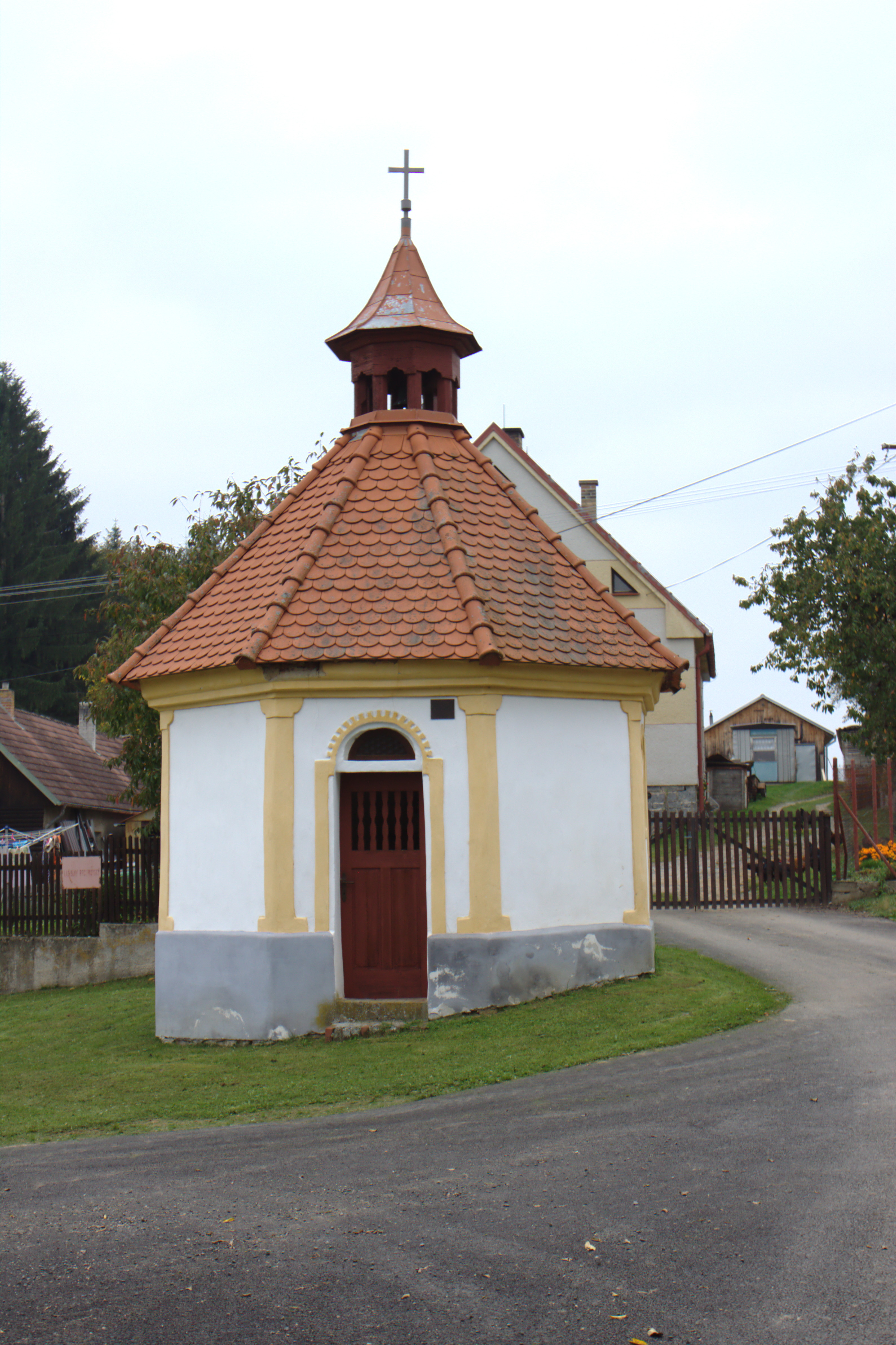 A chapel in the village of Lhýšov, South Bohemian Region CZ